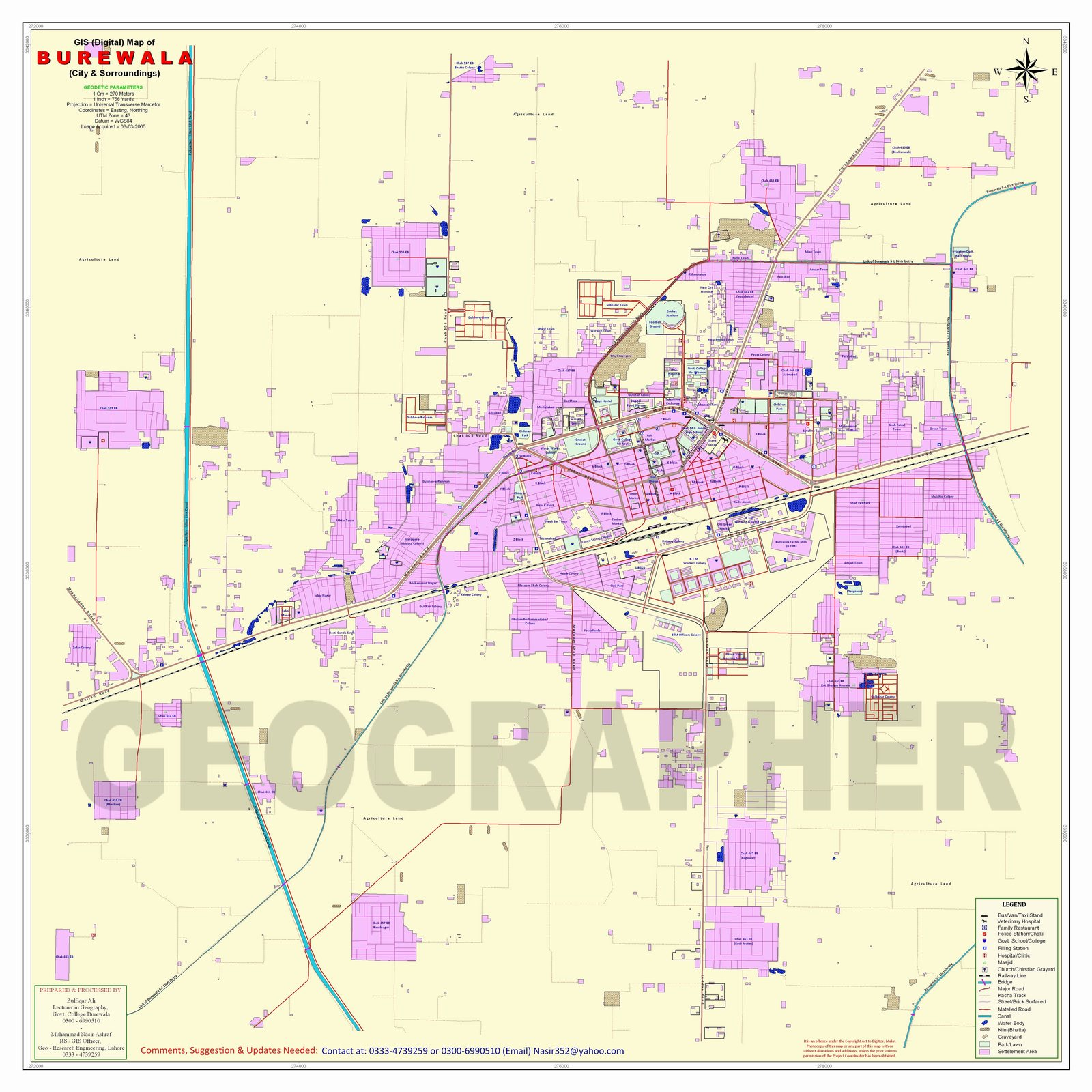 Digital GPS map of burewala, Pakistan